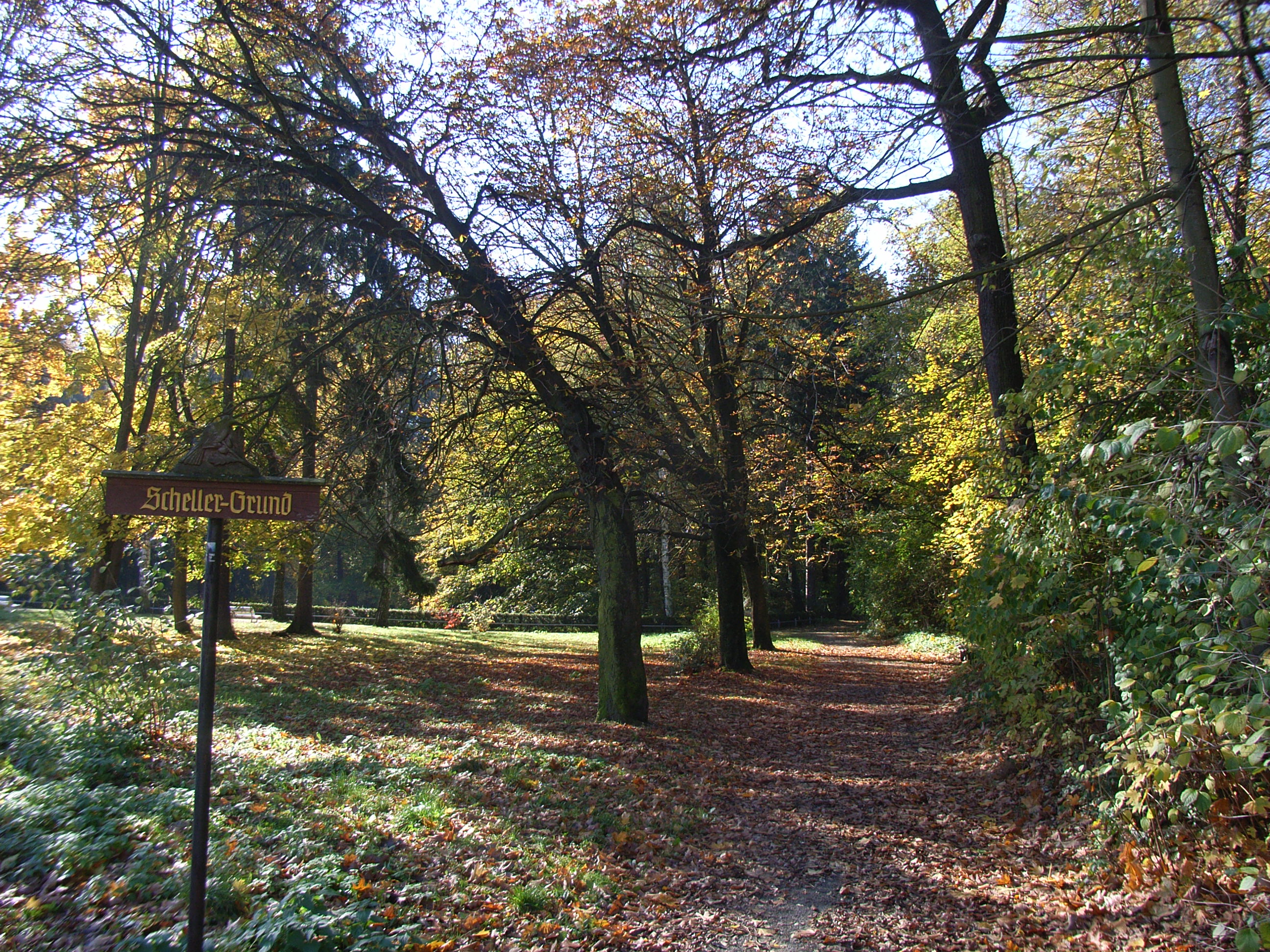 park "Schellergrund" in Görlitz, Saxony